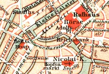 Map Gr. Burstah (Cut of map from Hamburg)